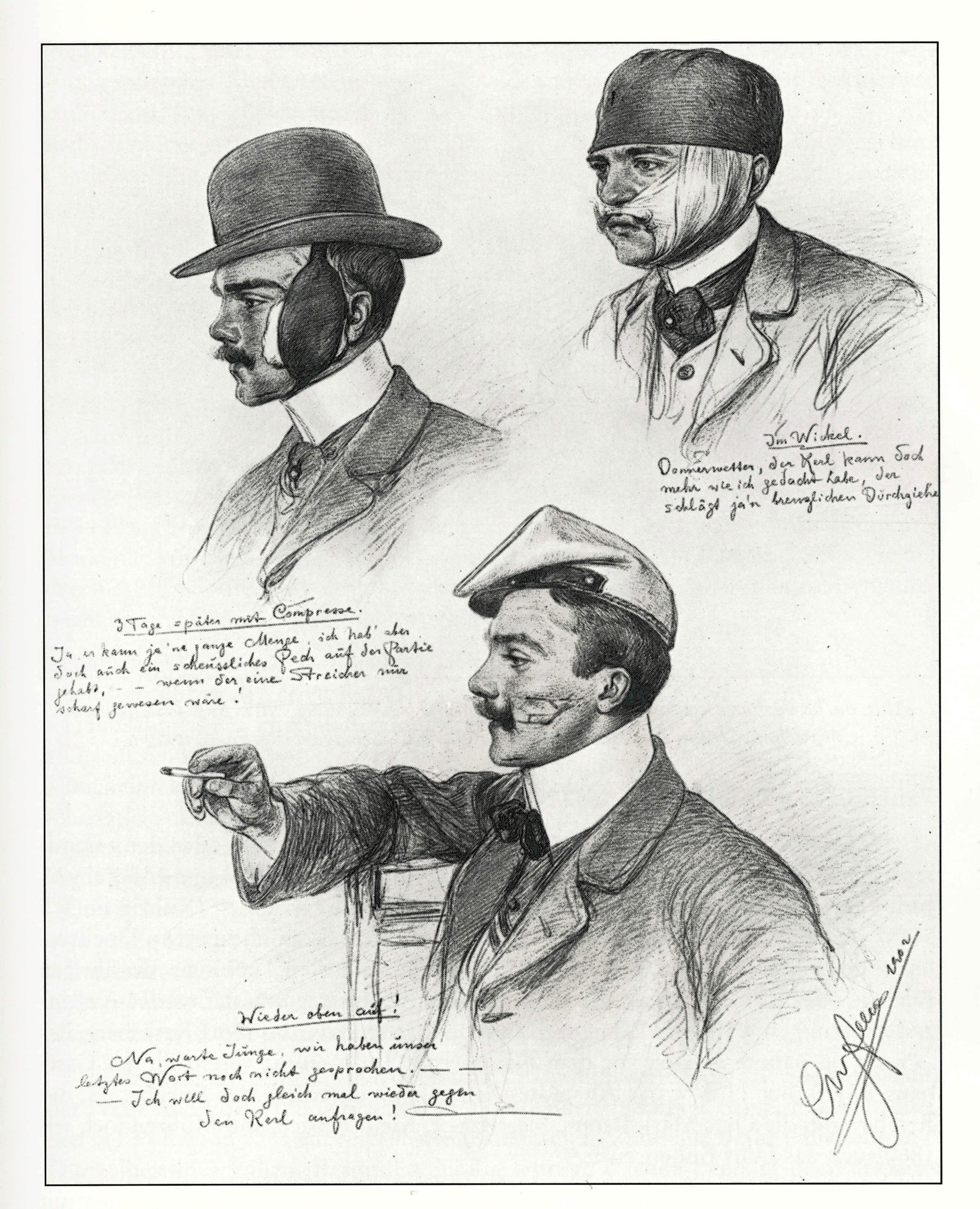 Three steps of recovering after a bout of Academic fencing in Germany